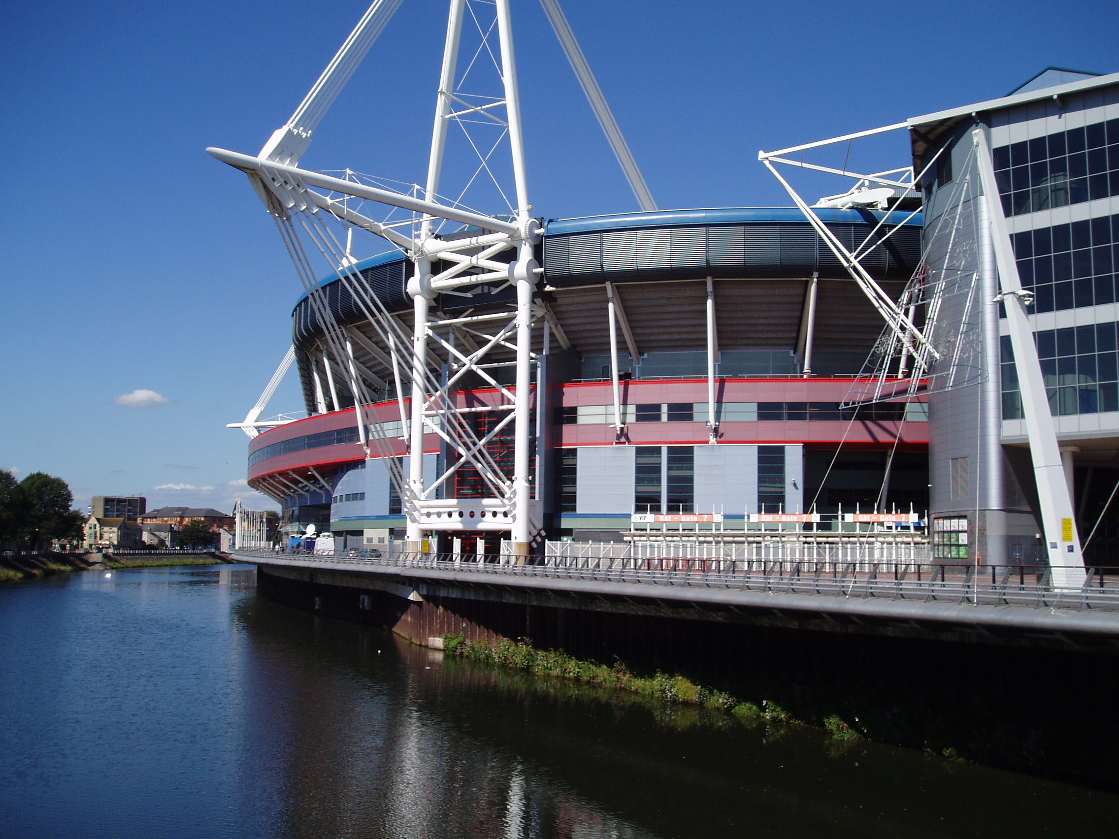 The Millennium Stadium in Cardiff, the capital of Wales